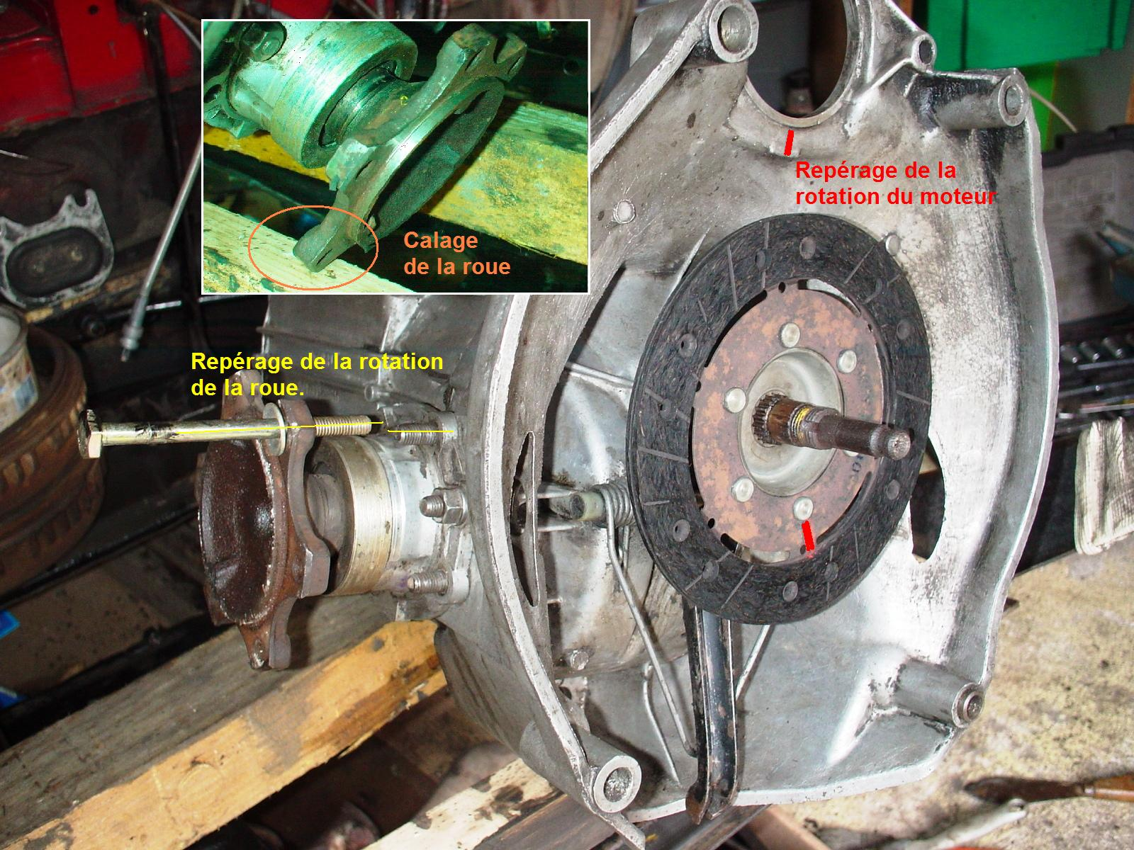 How process to define the model of 2cv gear box